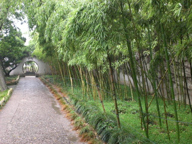 Suzhou, Humble Administrator's Garden